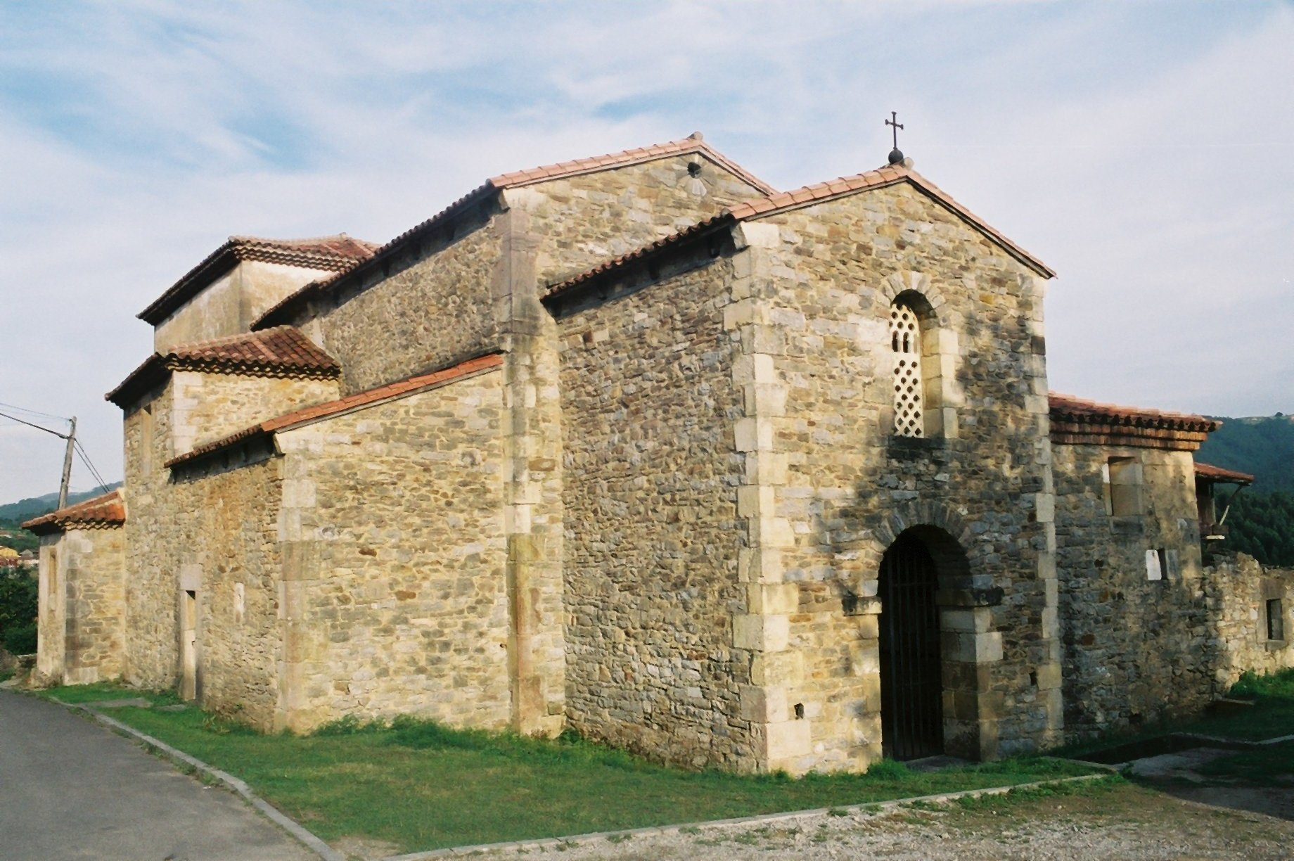 Church of Santianes de Pravia (Asturies - Spain) ast: Ilesia de Santianes de Pravia (Asturies - España)